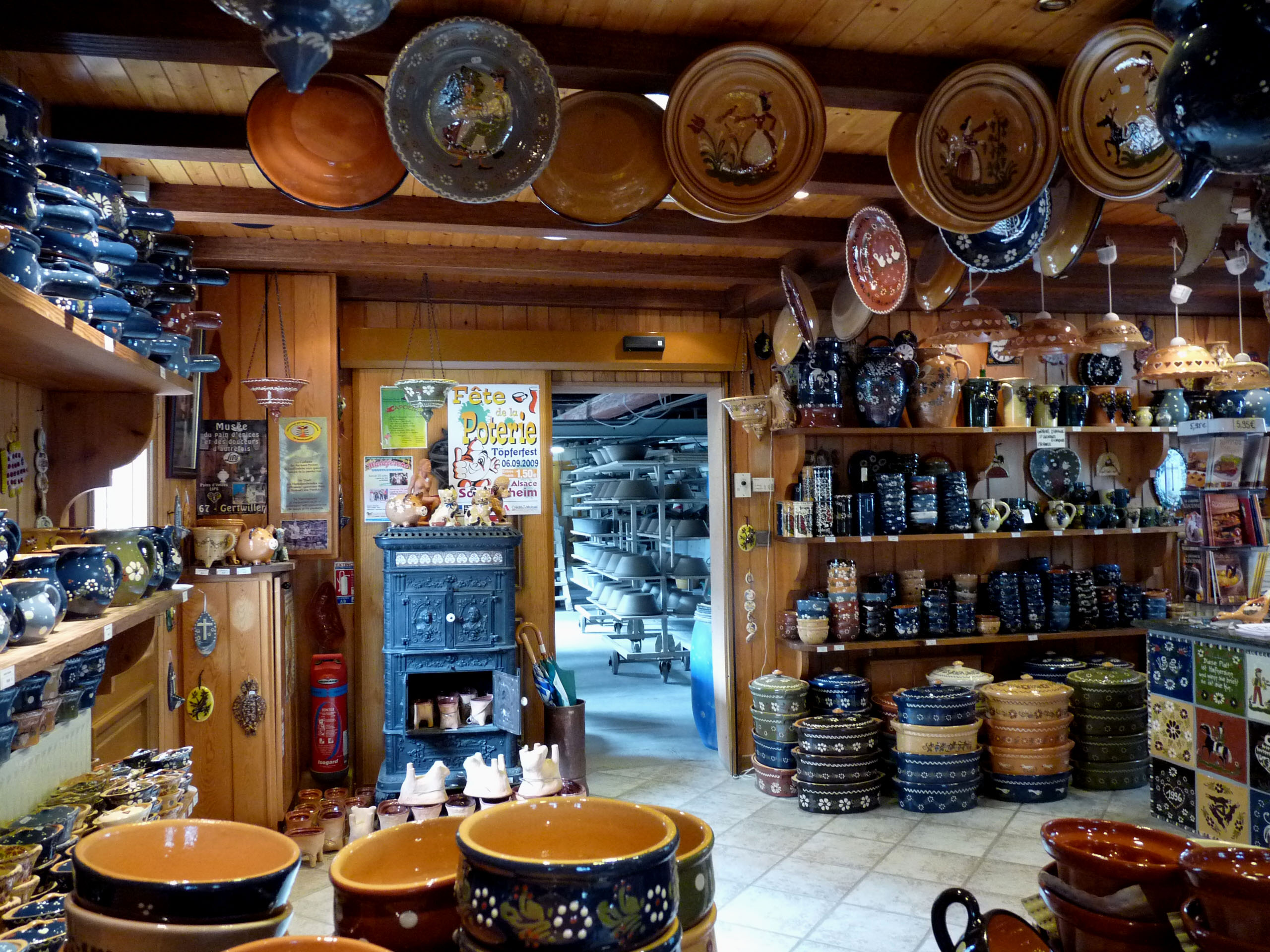 Potter in Soufflenheim (Bas-Rhin)